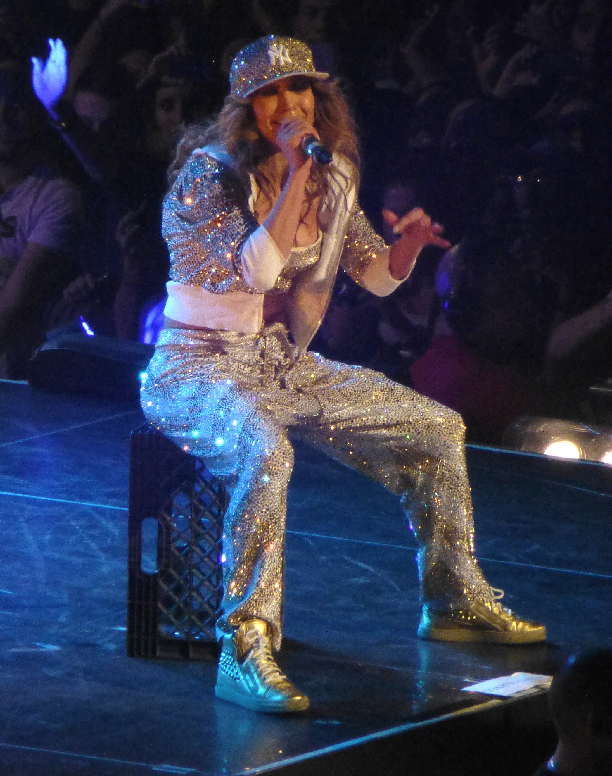 Jennifer Lopez in concert at Paris Bercy in the "Dance Again World Tour" in October 2012.